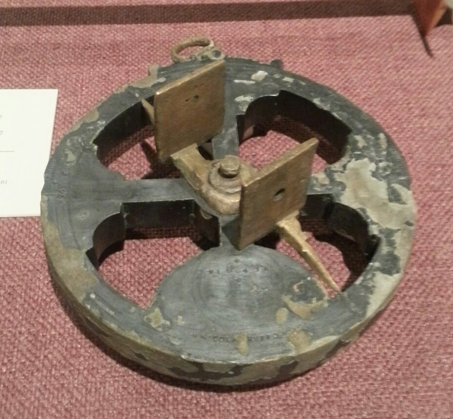 This is a silver-plated mariner's astrolabe made by Nicolao Ruffo and dated 1645. The astrolabe was found by Gigi Fernandes Corcia, an experienced diver and full time member of the Arqueonautus dive team, during the survey and excavation of a wreck site at Passa Pau on the island of Santiago in November of 1999. The astrolabe was found associated with other wreck material of mid-seventeenth century date within a complex of deep gullies and caves at a depth of 7 to 12 meters. There was little or no site contamination with extraneous material. This astrolabe has been catalogued as the 84th astrolabe in existence with The National Maritime Museum at Greenwich. It is in the collection at The Mariners' Museum in Newport News, Virginia.